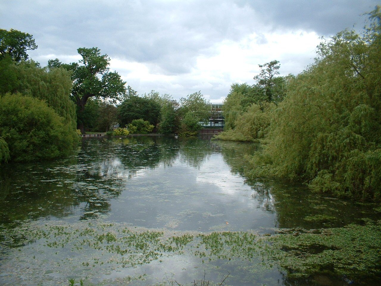 The pond at Priory Gardens, Orpington. This natural spring is the source of the River Cray. Taken after a week of heavy rain, 28/5/2006.